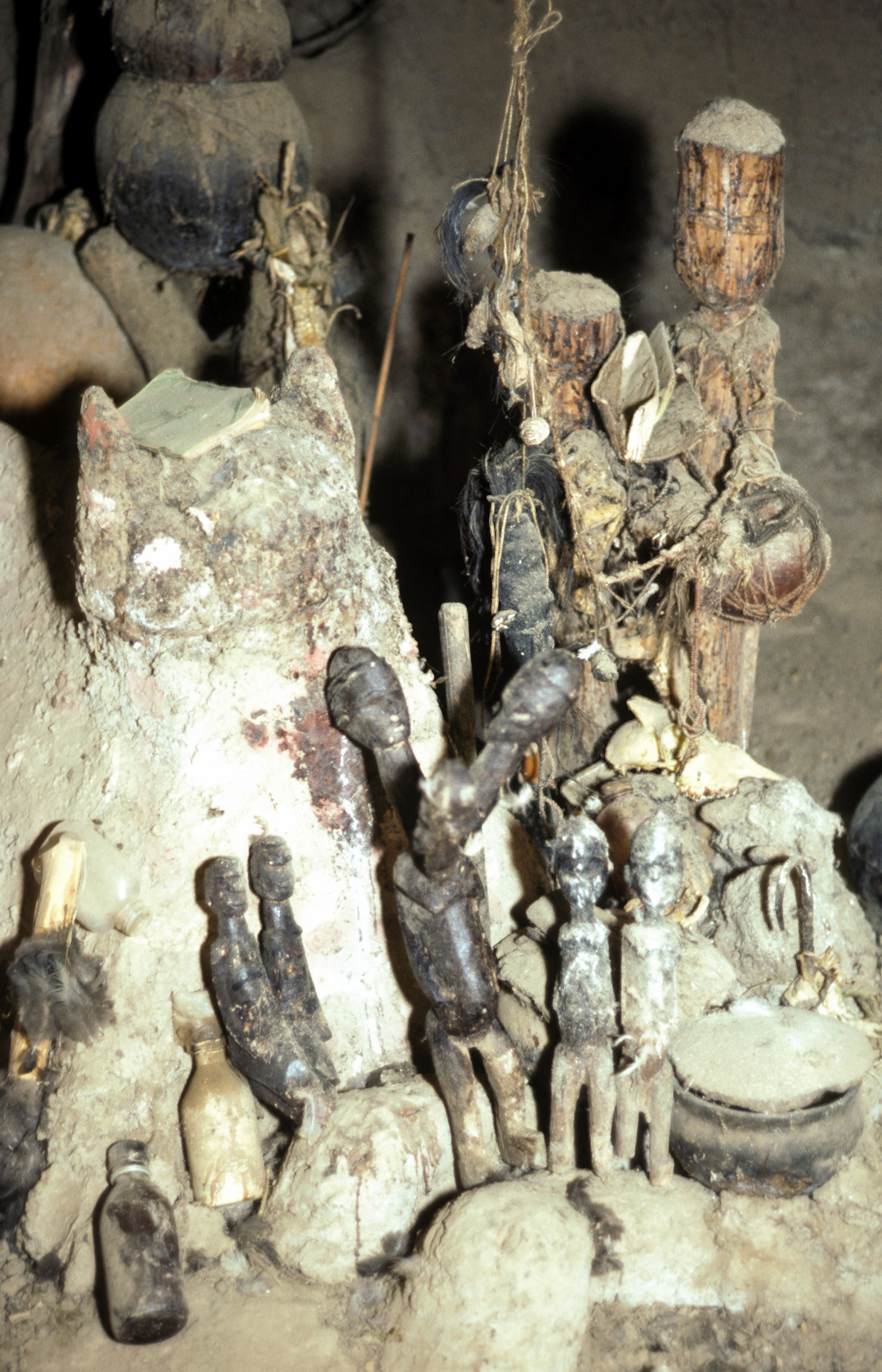 Shrine in a Lobi home, village of Dako, Burkina Faso, 1984. The abstract figures represent supernatural spirits.